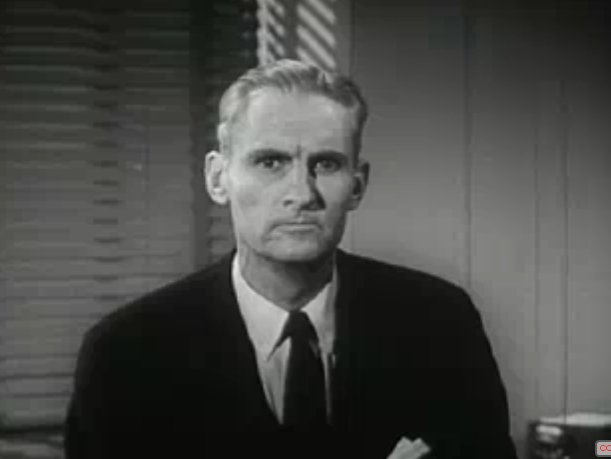 Screenshot from the movie on .